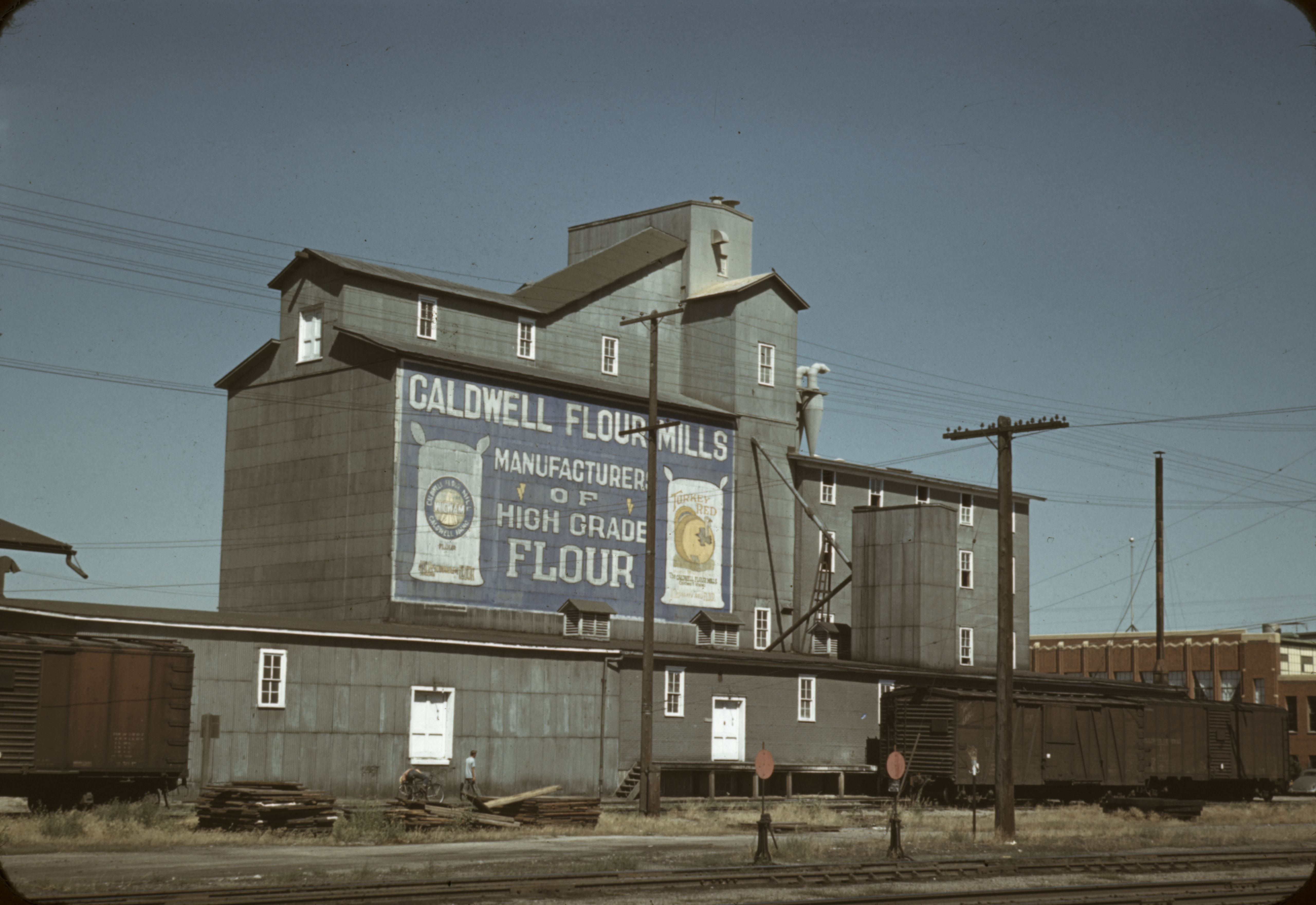 Flour mill, Caldwell, Idaho.